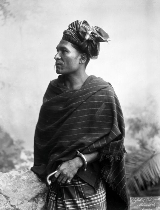 Portrait of panghulu Sialang Bula, a Simalungun Batak